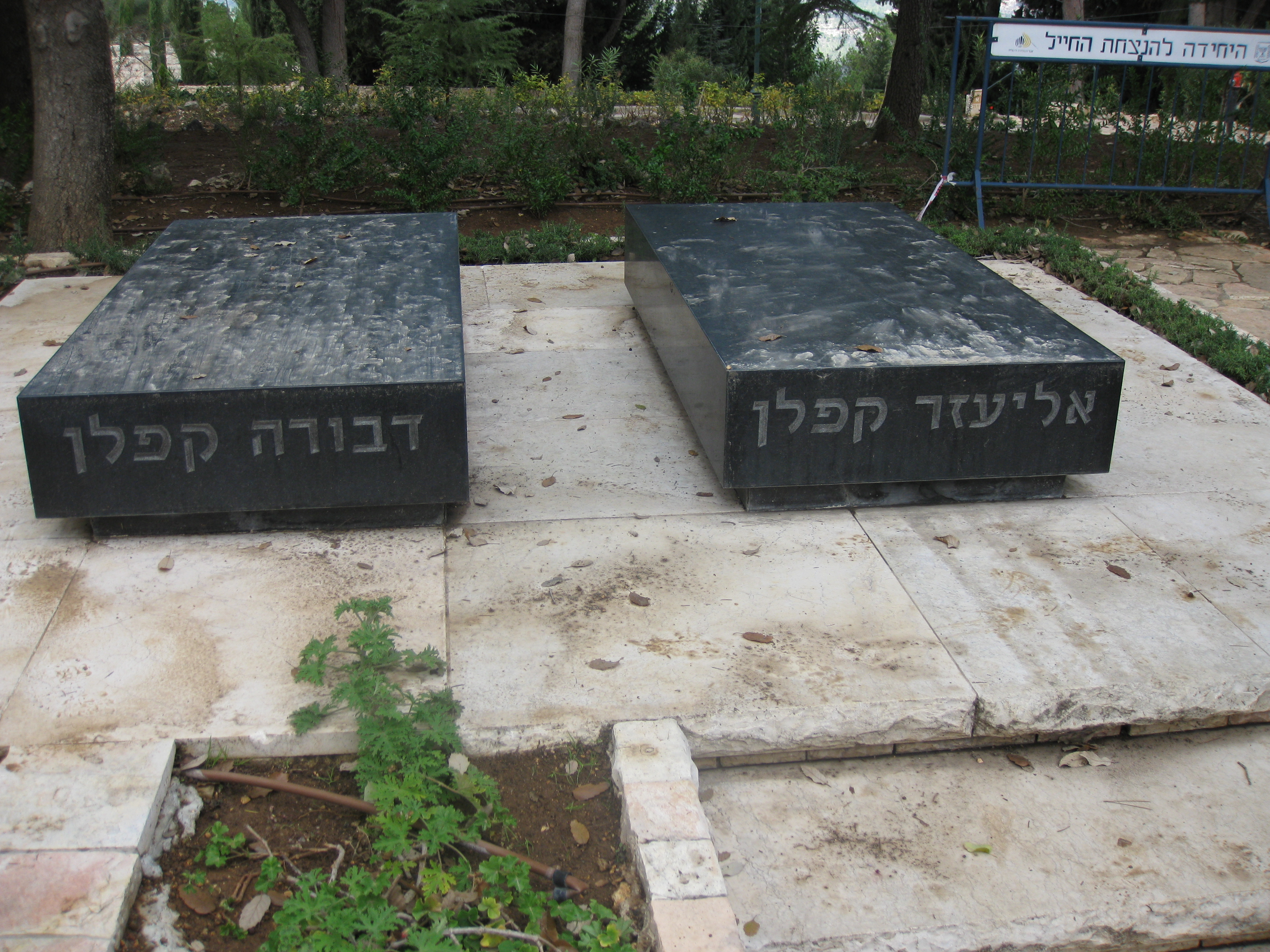 Nation's Great Leaders Graves: Graves of Eliezer and Debora Kaplan